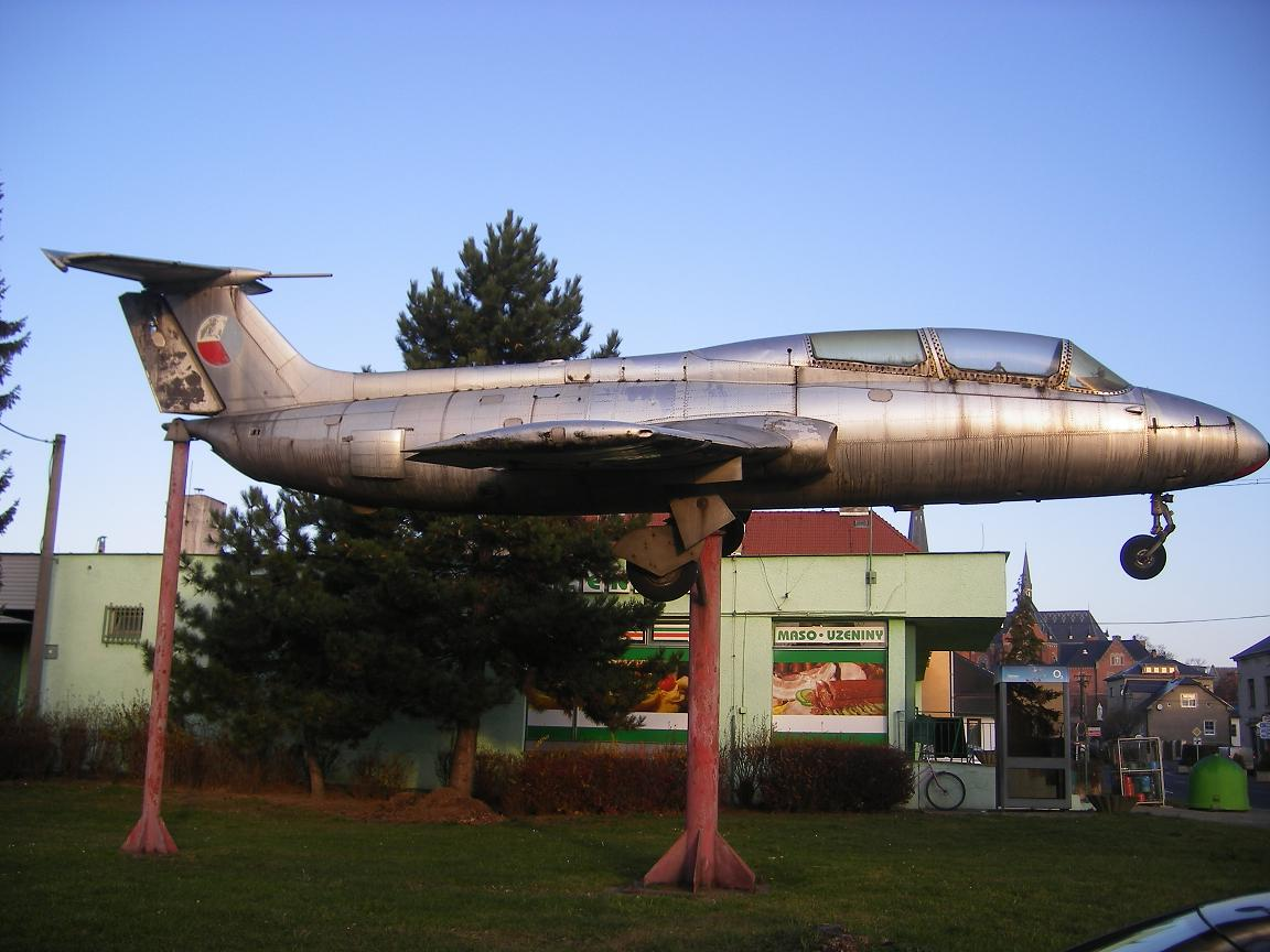 Czechoslovak Airforce Aero L-29 Delfin military jet, located in the centre of Sudice (Opava District)